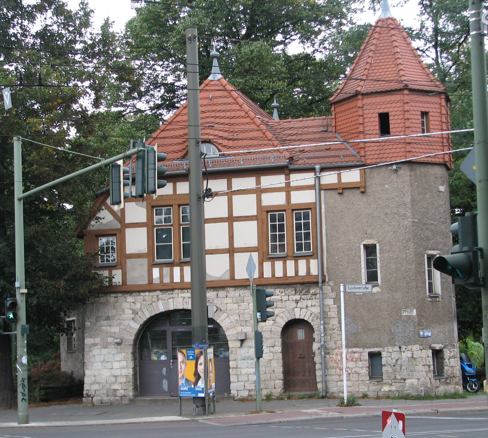 Monument on the Platz des 23. April, a public place in Berlin: Forming sub-station of the former Städtische Straßenbahn Cöpenick (municipal tram Cöpenick) with an integrated shelter for passengers. At this place alternating current was transformed into 550 volts direct current.